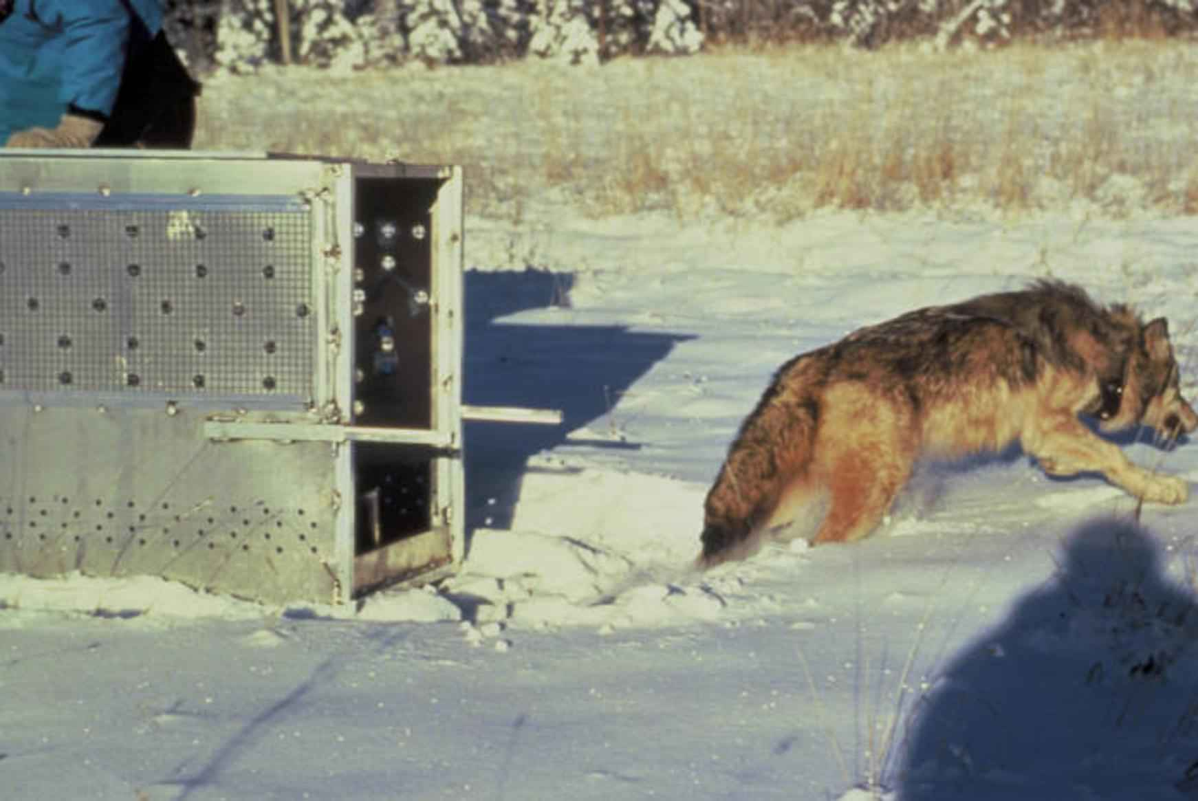 Image title: A gray wolf fitted with a radio collar is released into the wild Image from Public domain images website